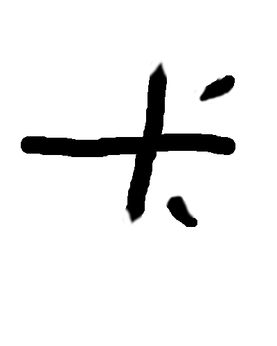 Rough reconstruction of a tattoo found on an unidenitifed victim of Larry Eyler